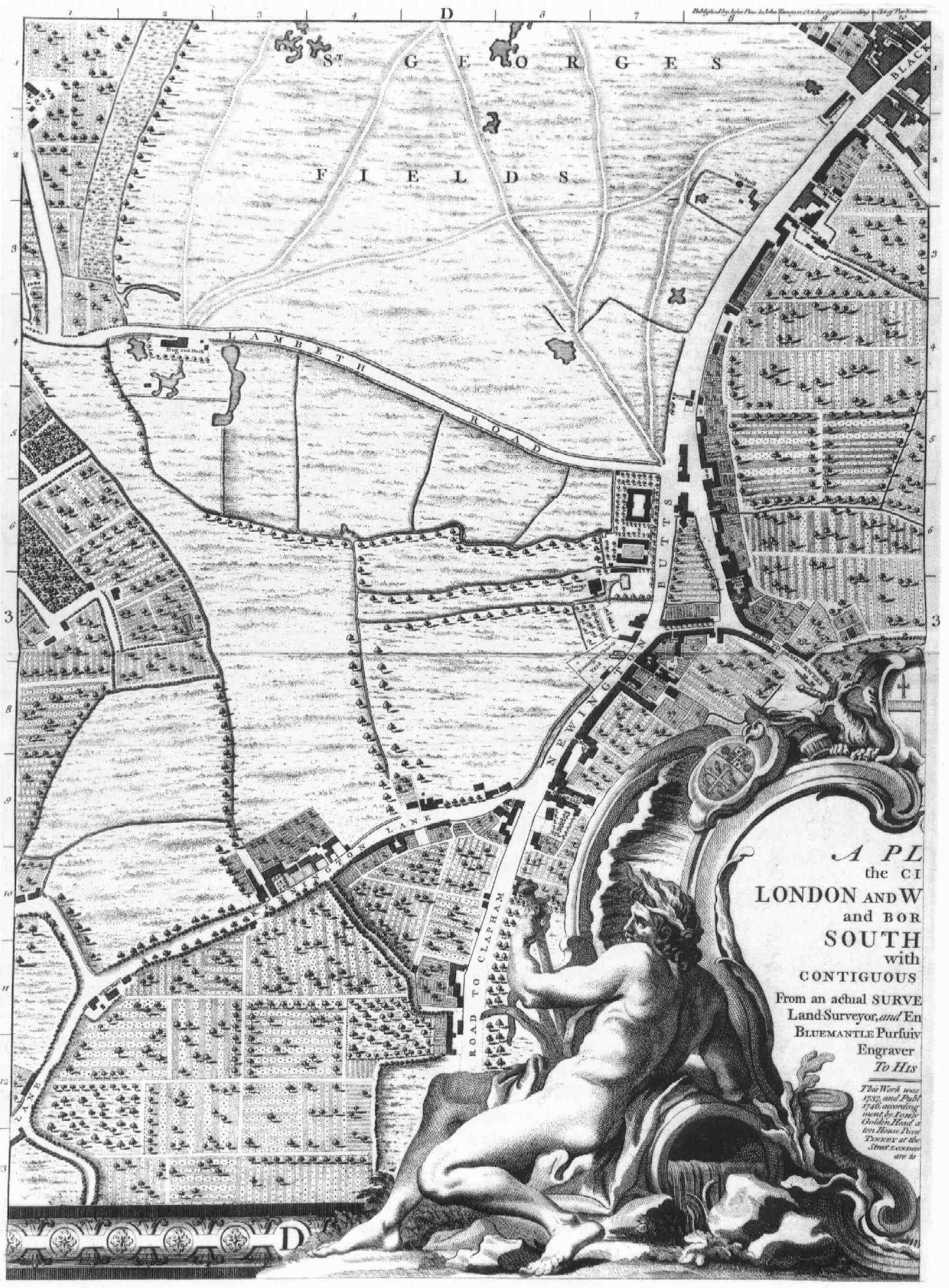 John Rocque's Map of London - 1746 John Rocque's map of London was published in the form of 24 sheets at a scale of 26in. to the mile. There were eight columns of three rows, a1 to h3.